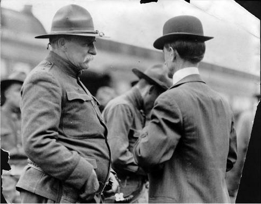 Photograph of John Chase and Frank E. Grove